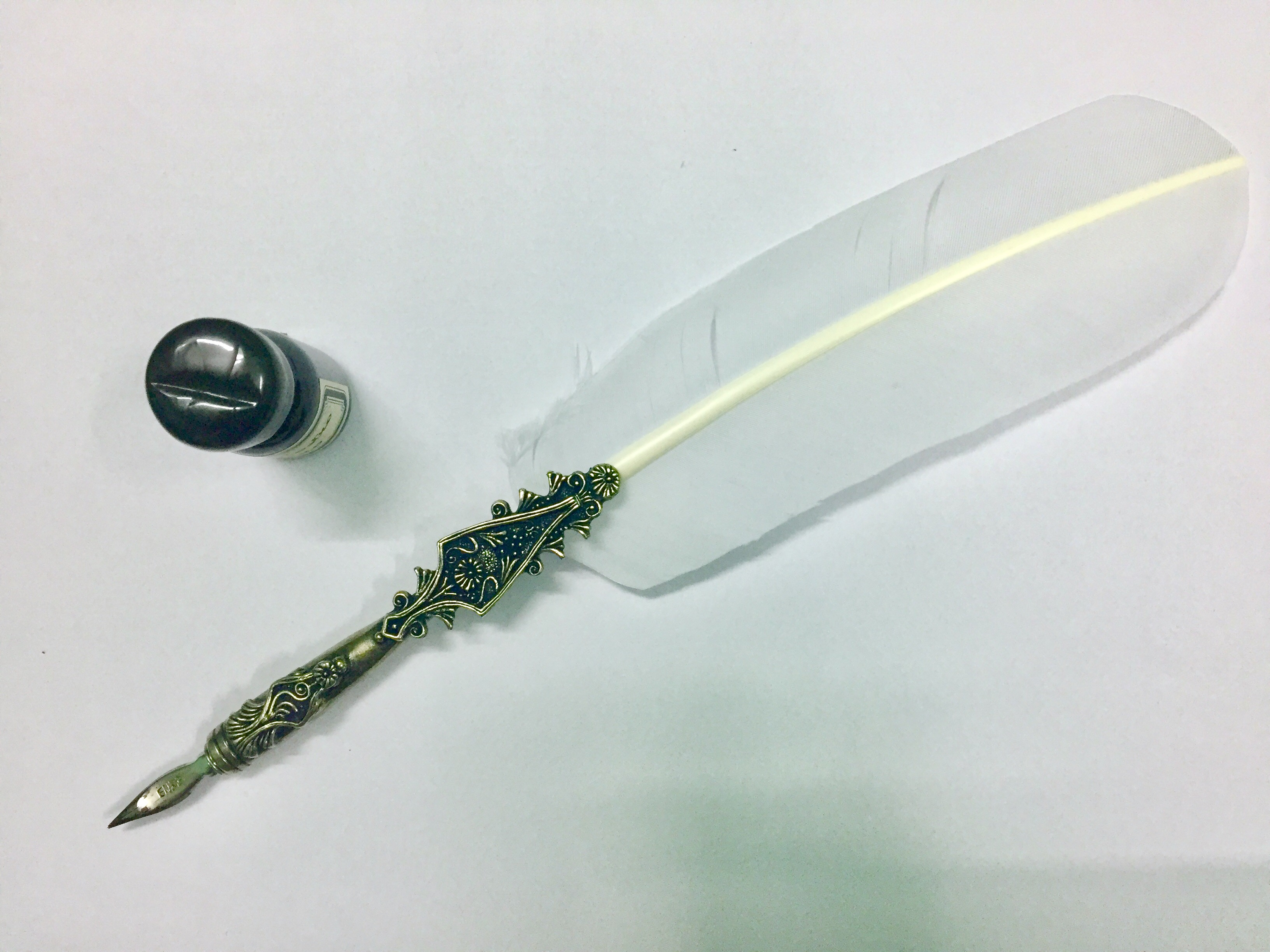 Quill_pen.